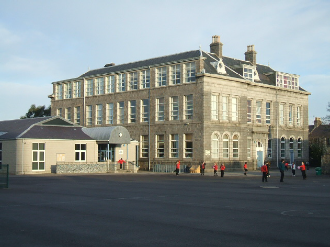 A photograph taken by myself of Ashley Road Primary School, Aberdeen. Ashley Road Primary School is a primary school in the west end of the city of Aberdeen in Scotland. It houses around 400 pupils and has 2 sets of each year group. The school feeds into Aberdeen Grammar School. The school has around 20 teaching staff, 2 of these being Depute-Heads and 1 Head-teacher. The school was built in the late 19th century, and on the east side of the building has the words engraved "Ashley Road Public School" The School building consists of 3 blocks. The main school is 3 stories and is the main building. It holds all the classrooms (apart from the Home economics classroom and nursery). The Office Building is where the Main Office/ Dining (also used for assemblys) hall are. The "Bubble", a waiting area for guests and visitors lies in-front of the main doors. The third building is a 2 storey building. On the bottom floor, the nursery and the top floor is the art/home economics base.